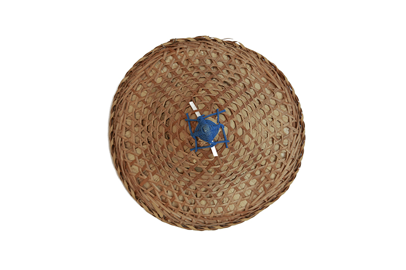 Zhu Lan Qing Project: All about my grandma